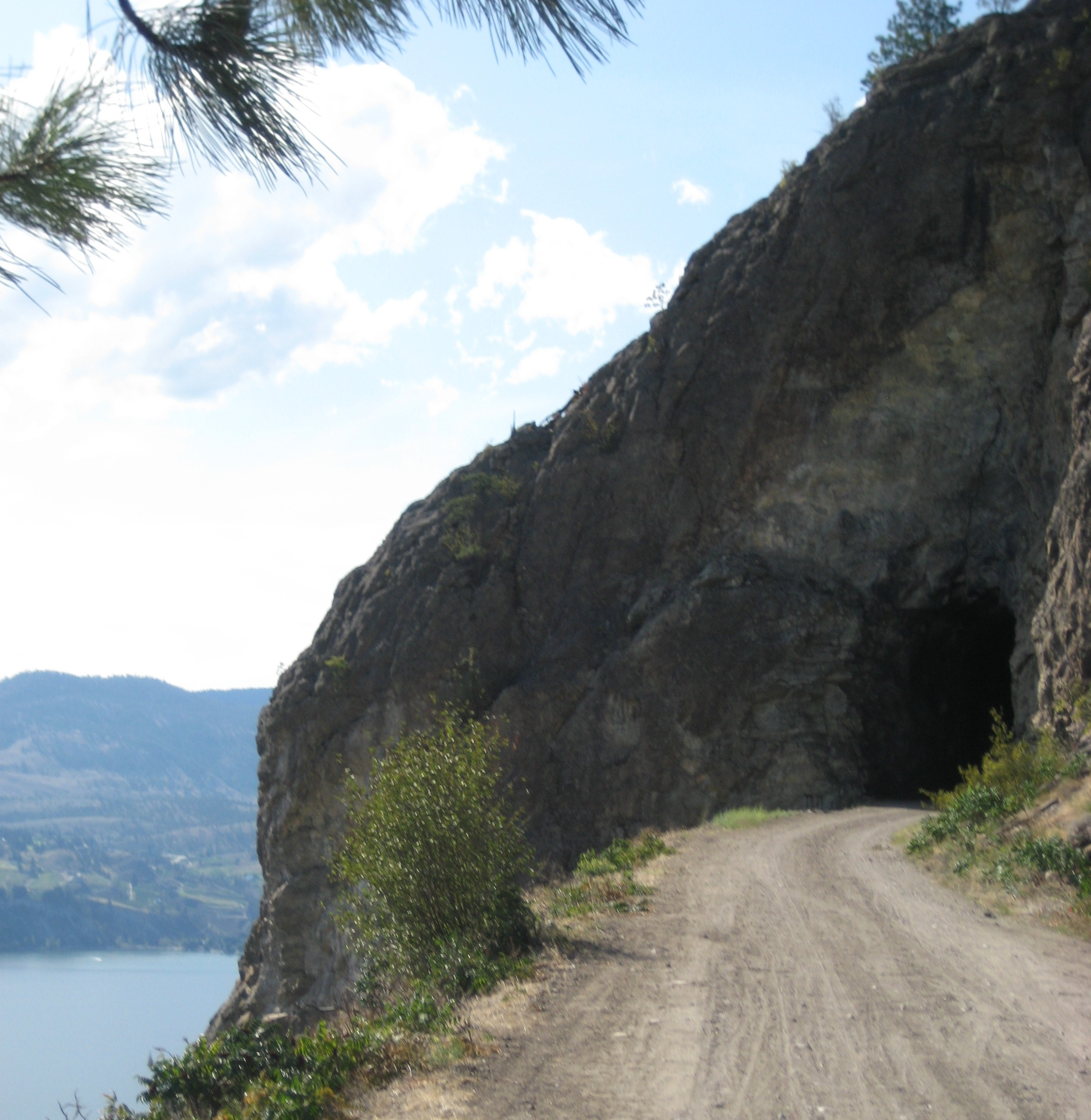 The Little Tunnel on the Kettle Valley Railway between Penticton and Kelowna.